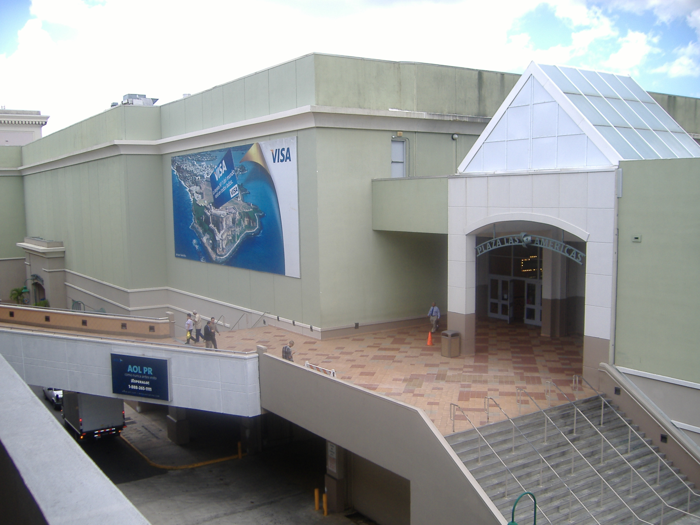 Picture of Plaza Las Américas back entrance from parking garage in San Juan, Puerto Rico.